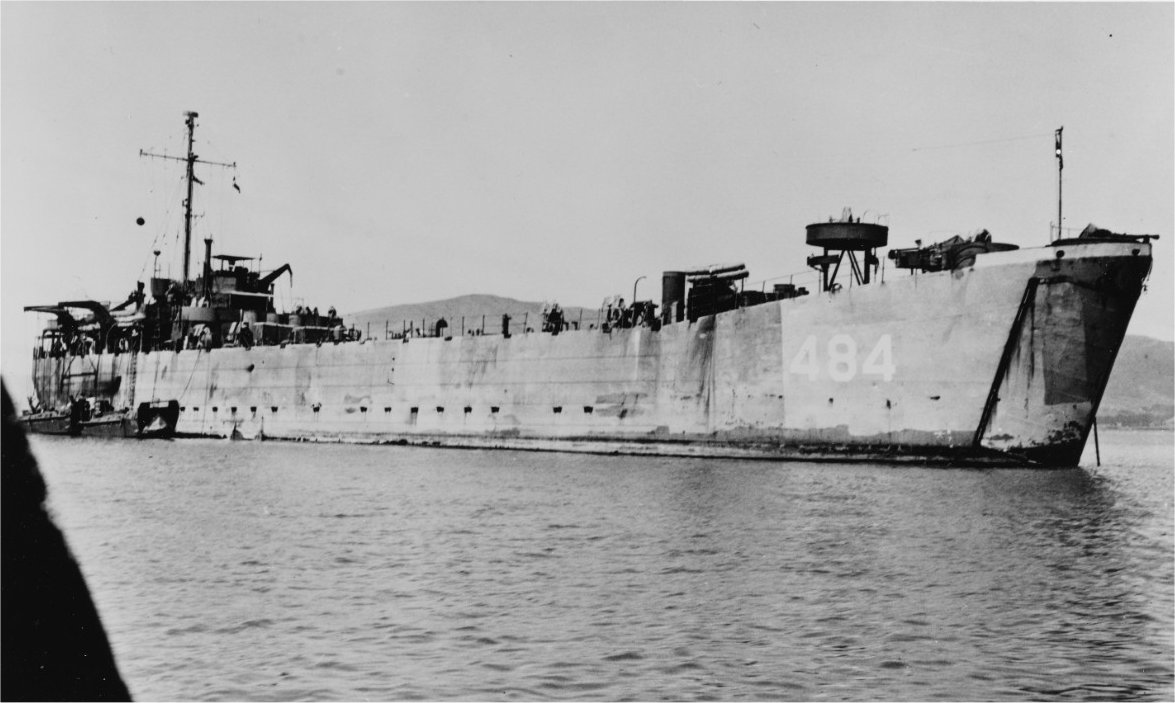 USS LST-484 at anchor, location unknown, circa 1945-46.